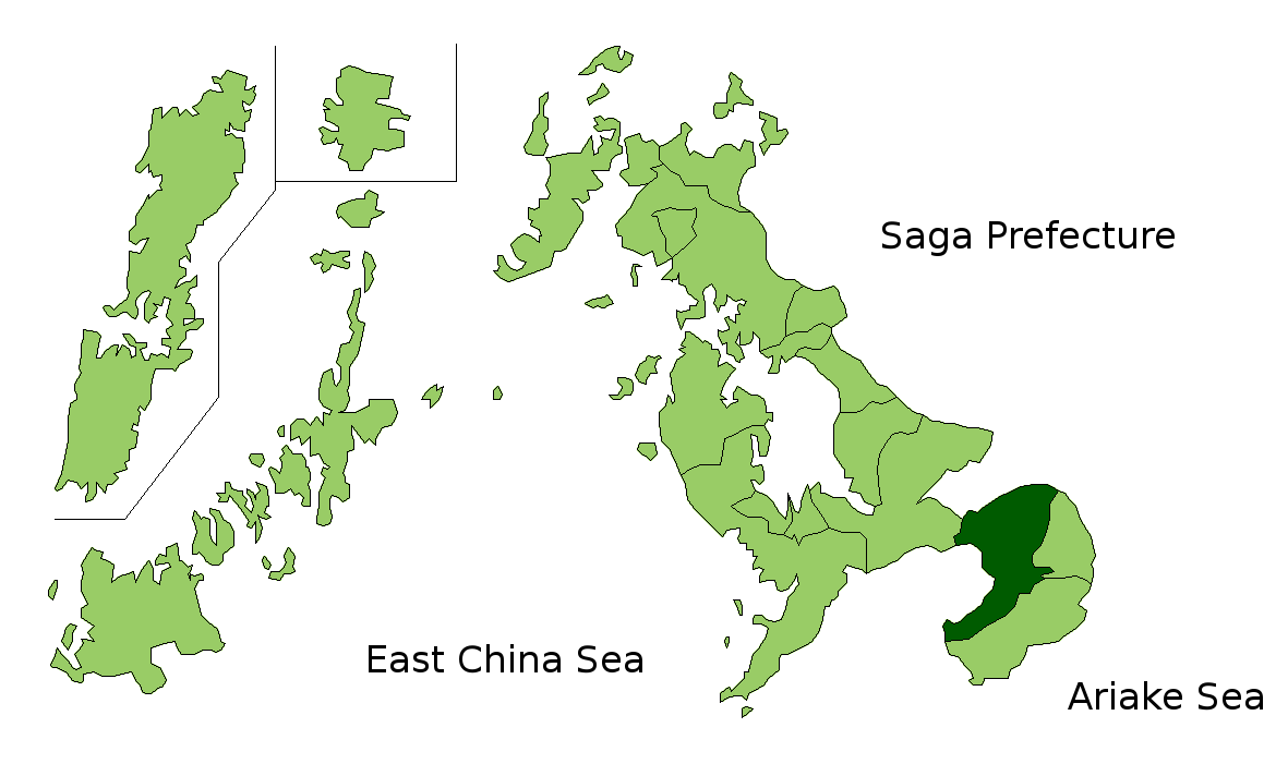 The location of Unzen in Nagasaki Prefectuur, Japan